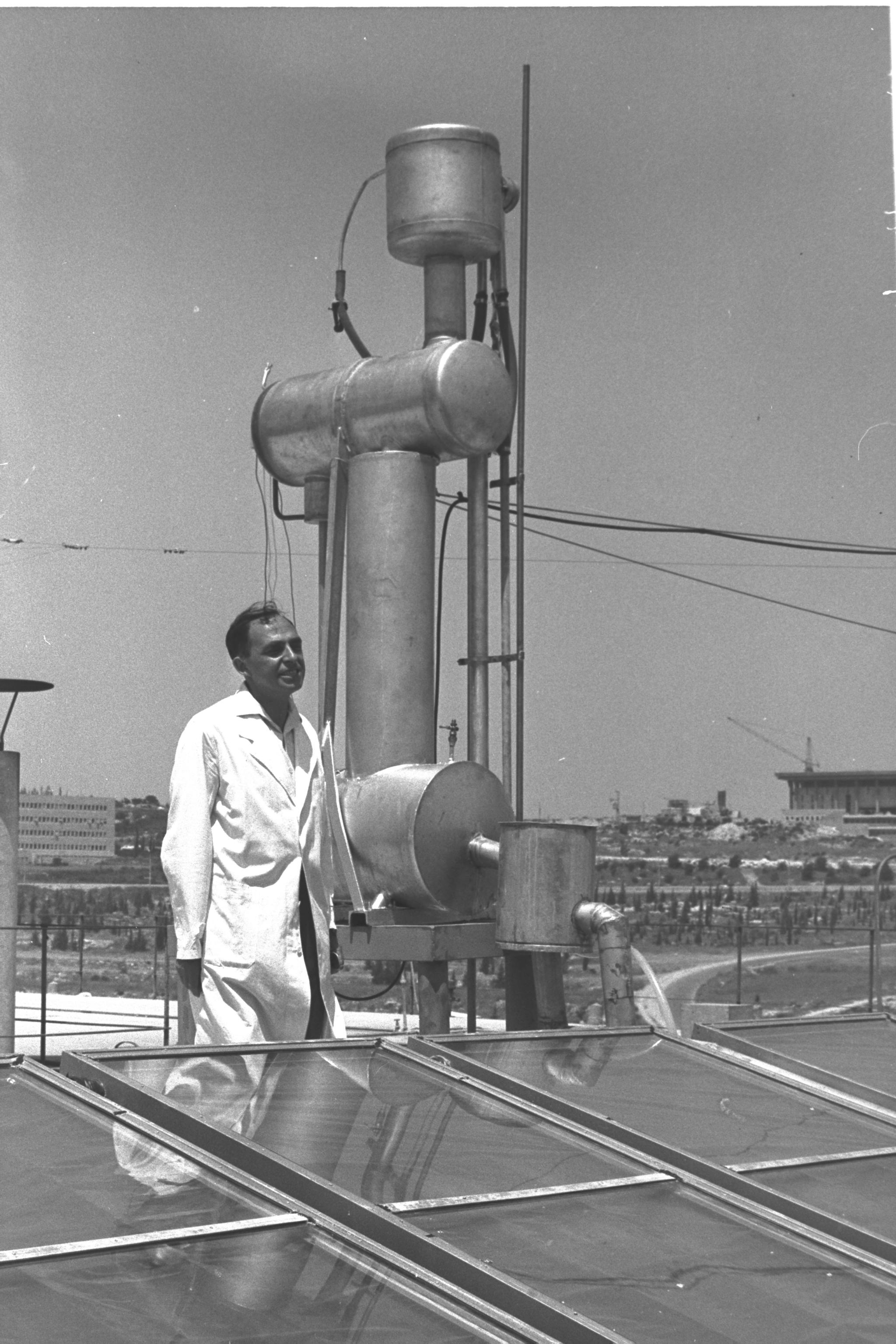 DR. ZVI TABOR, THE HEAD OF THE NATIONAL PHYSICAL LABORATORY IN JERUSALEM, DISPLAYS A NEW SOLAR ENERGY POWER UNIT ON THE ROOF OF HIS LAB AT THE HEBREW UNIVERSITY.